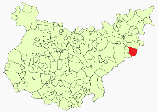 Capilla